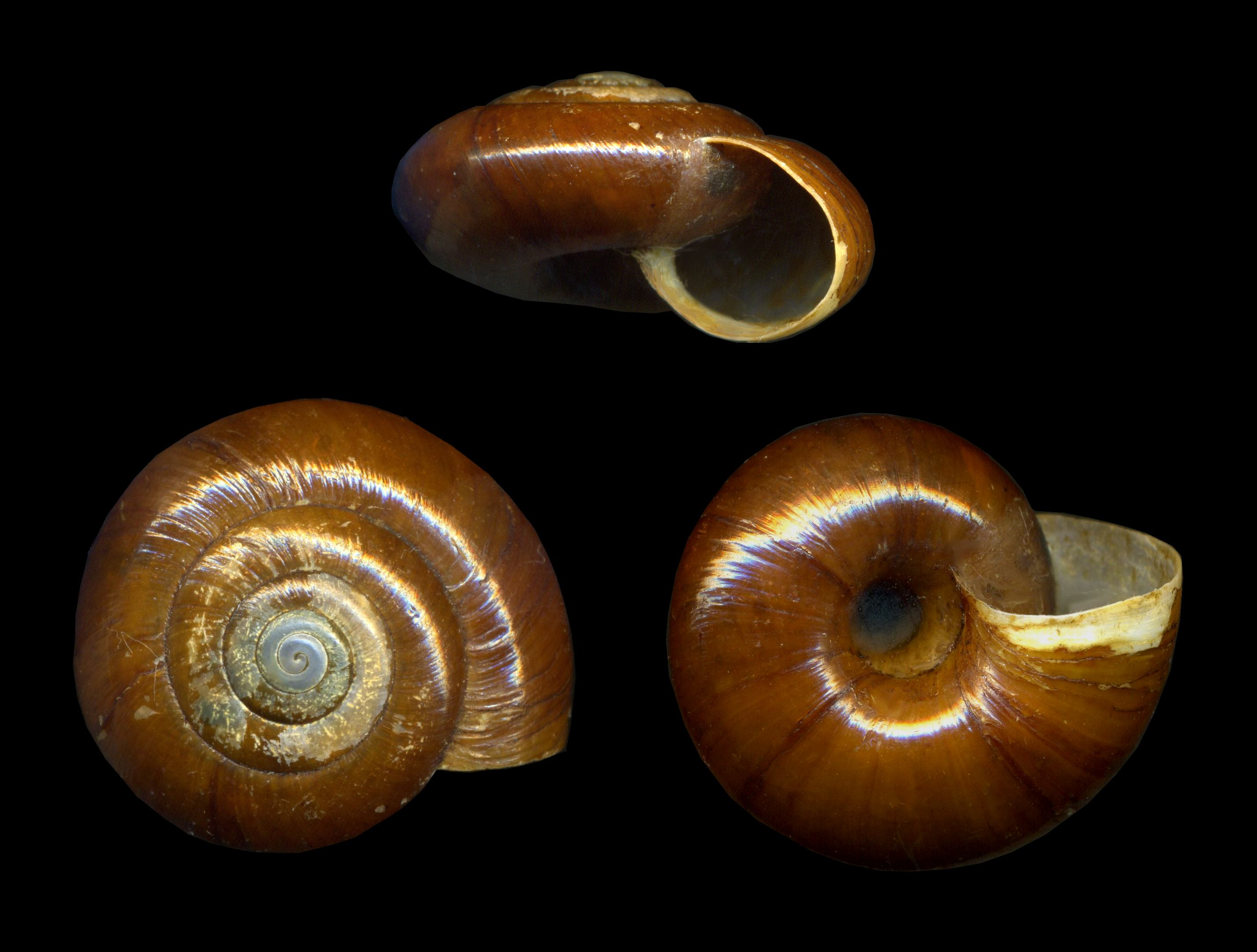 The megomphicid land snail Glyptostoma gabrielense from Monrovia Canyon, California, USA; about 25 mm or 1 inch in diameter.